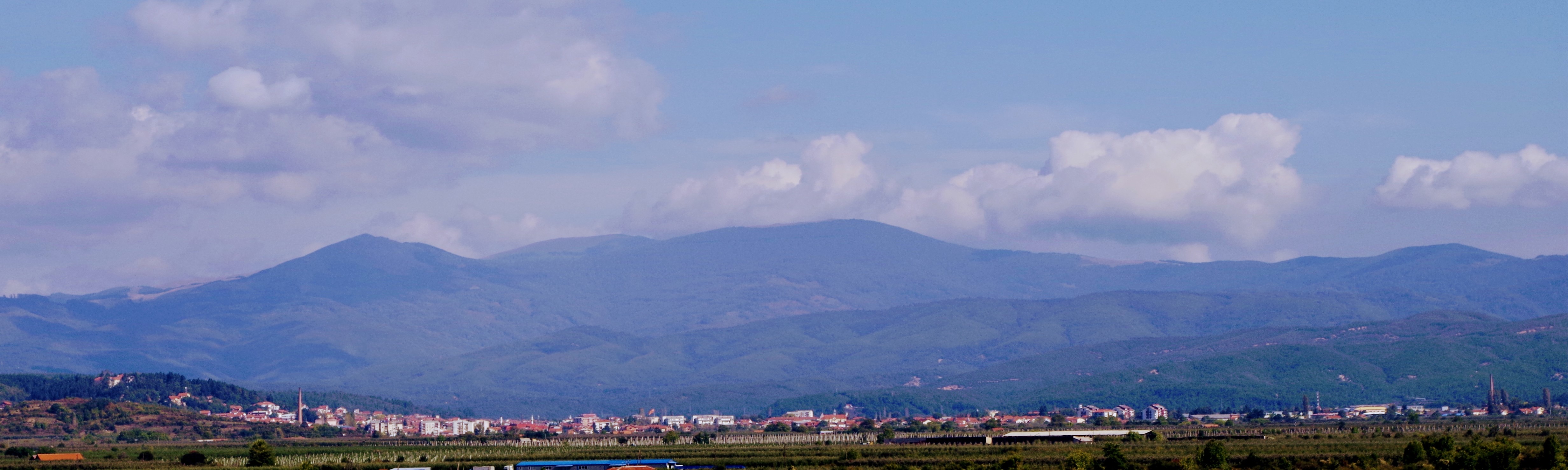 Panoramic view of the town Resen